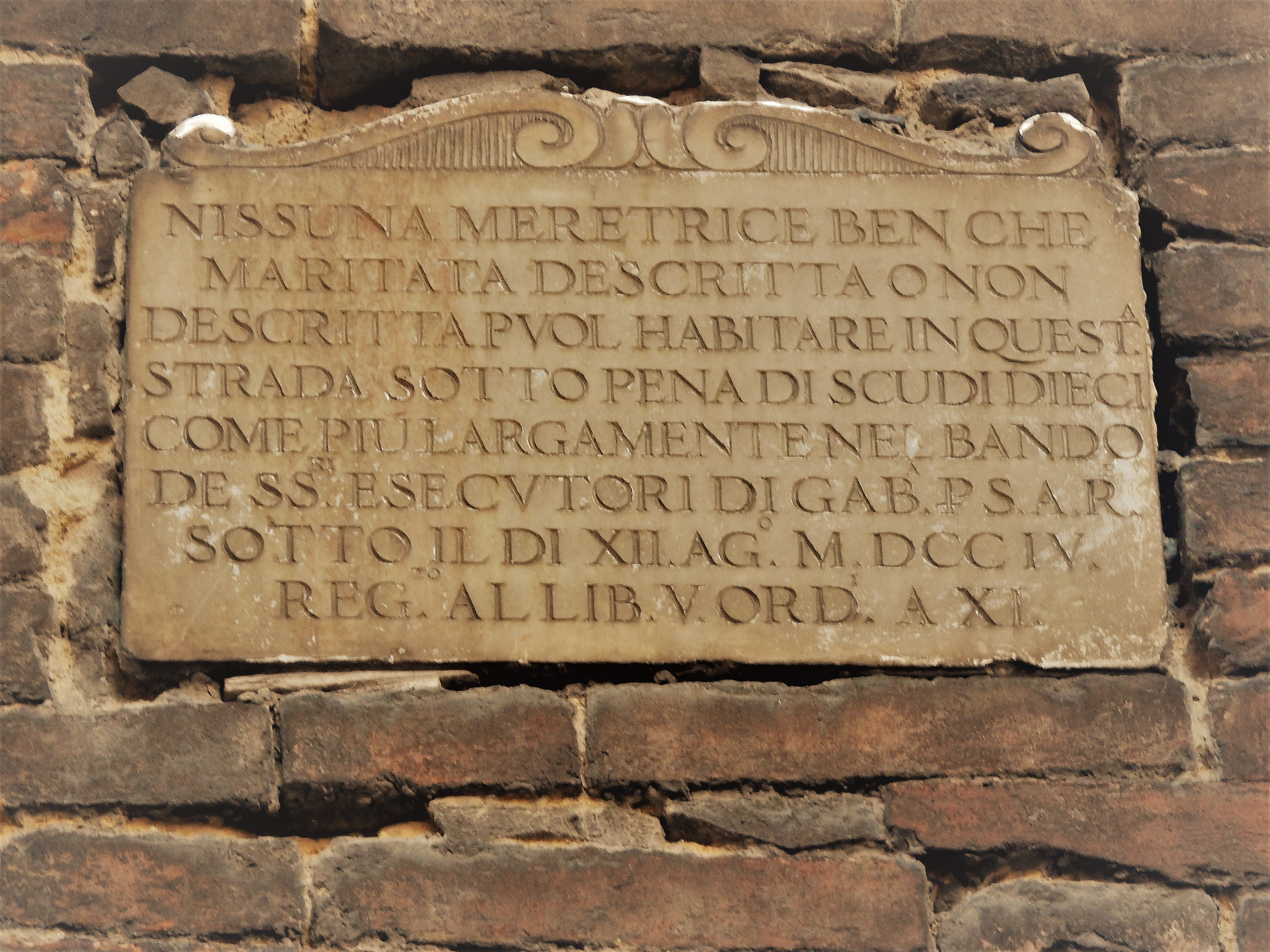 marble inscription of prohibition of the prostitution in a street of Siena in Italy (via di Castelvecchio), dated 12 august 1704